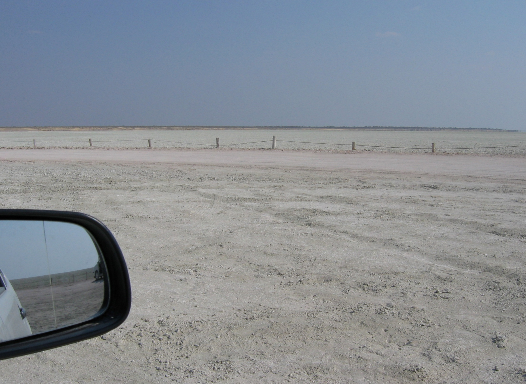 Etosha-pan, Namibia